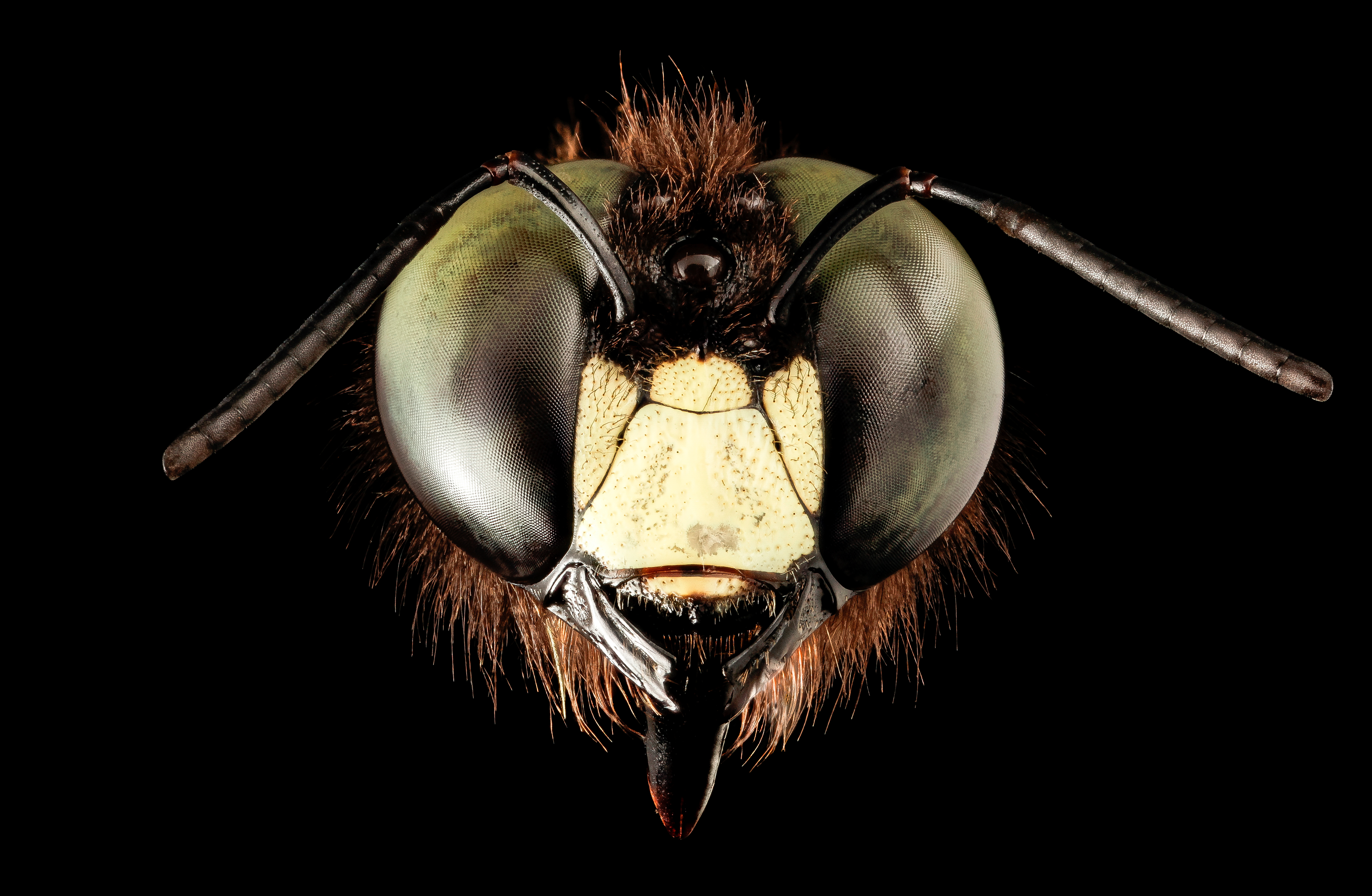 Giant Flying Eye - The male of Xylocopa virginica or Virginia Carpenter Bee. Any bee with this much "eye" is clearly doing something different visually. In this case the males are guarding nesting territories and the associated females and their young and defending them from other males. You will note this when you go out on your deck and a "bumblebee" starts flying around you, sorry, but it is just this male who has a difficult time differentiating sizes, but it is a magnificent motion detector. It is also completely harmless and has no sting, like all male Hymenoptera. While the females have stings they are pretty pathetic compared to social insects such as honeybees and paper wasps, and you actually have to grab one to make it sting you. Collected at the Pickering Creek Audubon Society BioBlitz this past weekend.